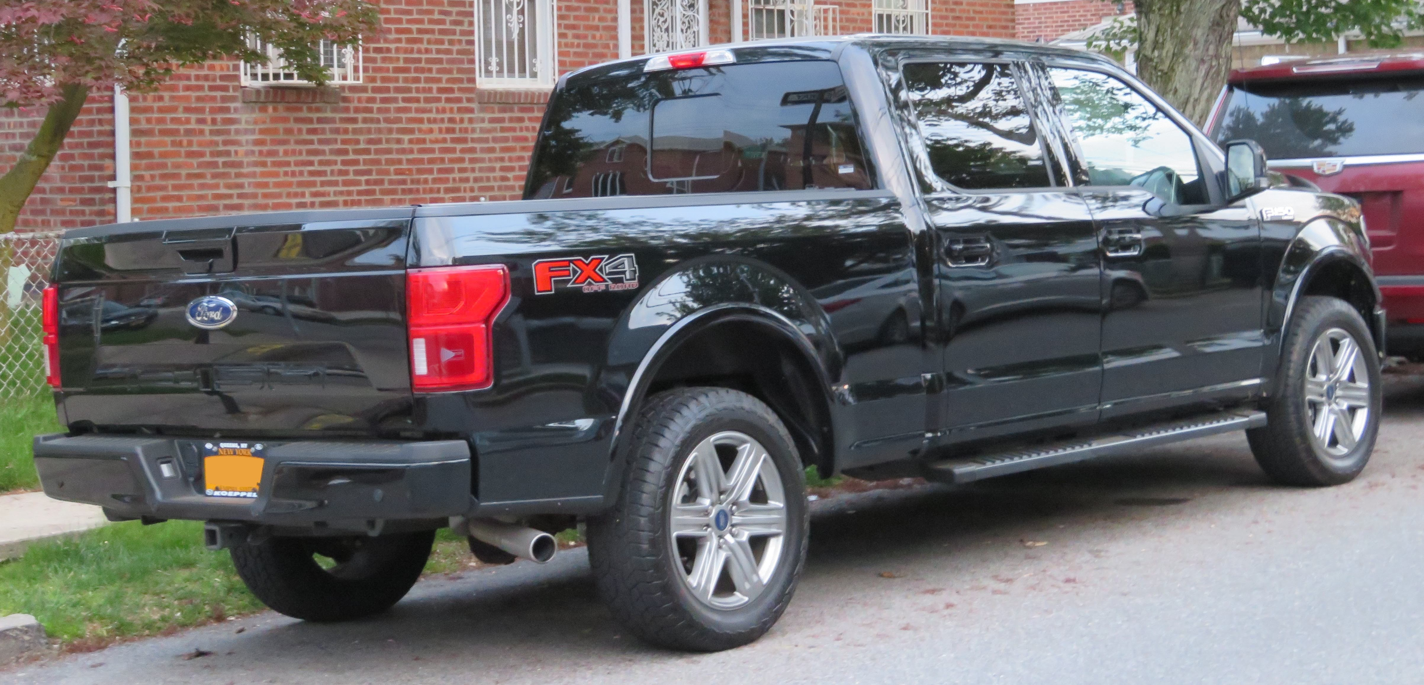 Photographed in Queens, New York